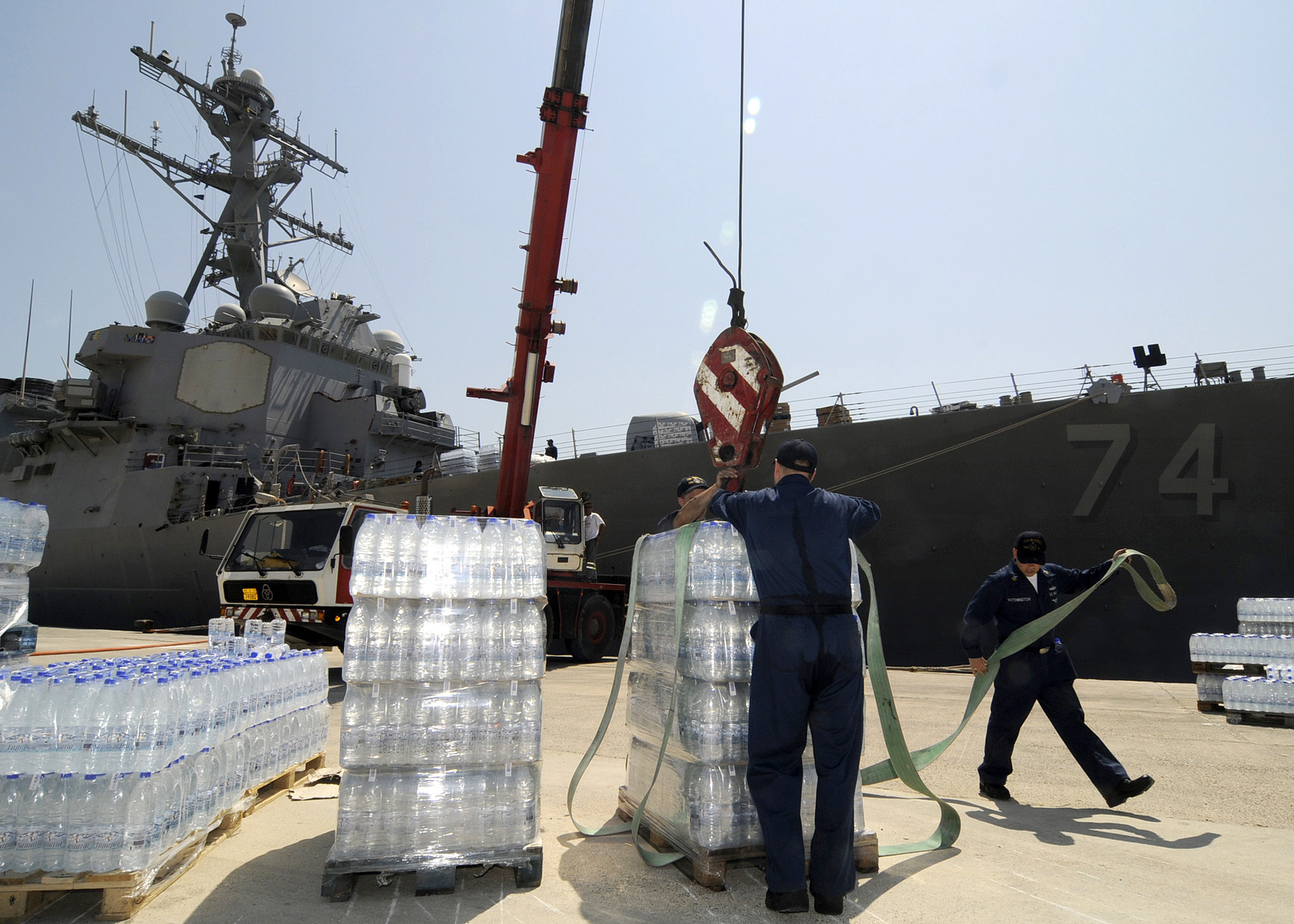 SOUDA BAY, CRETE, Greece (Aug. 20, 2008) Bottled water is loaded aboard the guided-missile destroyer USS McFaul (DDG 74). Nearly 55 tons of supplies were loaded as part of the humanitarian assistance for the Republic of Georgia following the conflict between Russian and Georgian forces.